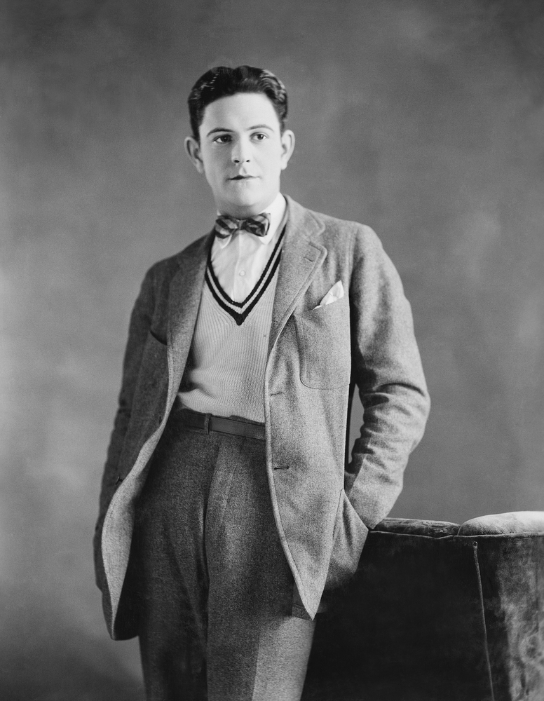 John Betjeman